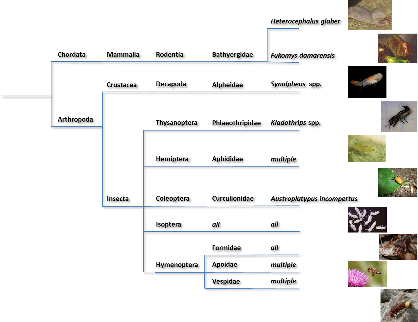 Diagram of all linneages with eusocial species Other information This diagram with an additional composite of images from various wikipedia pages